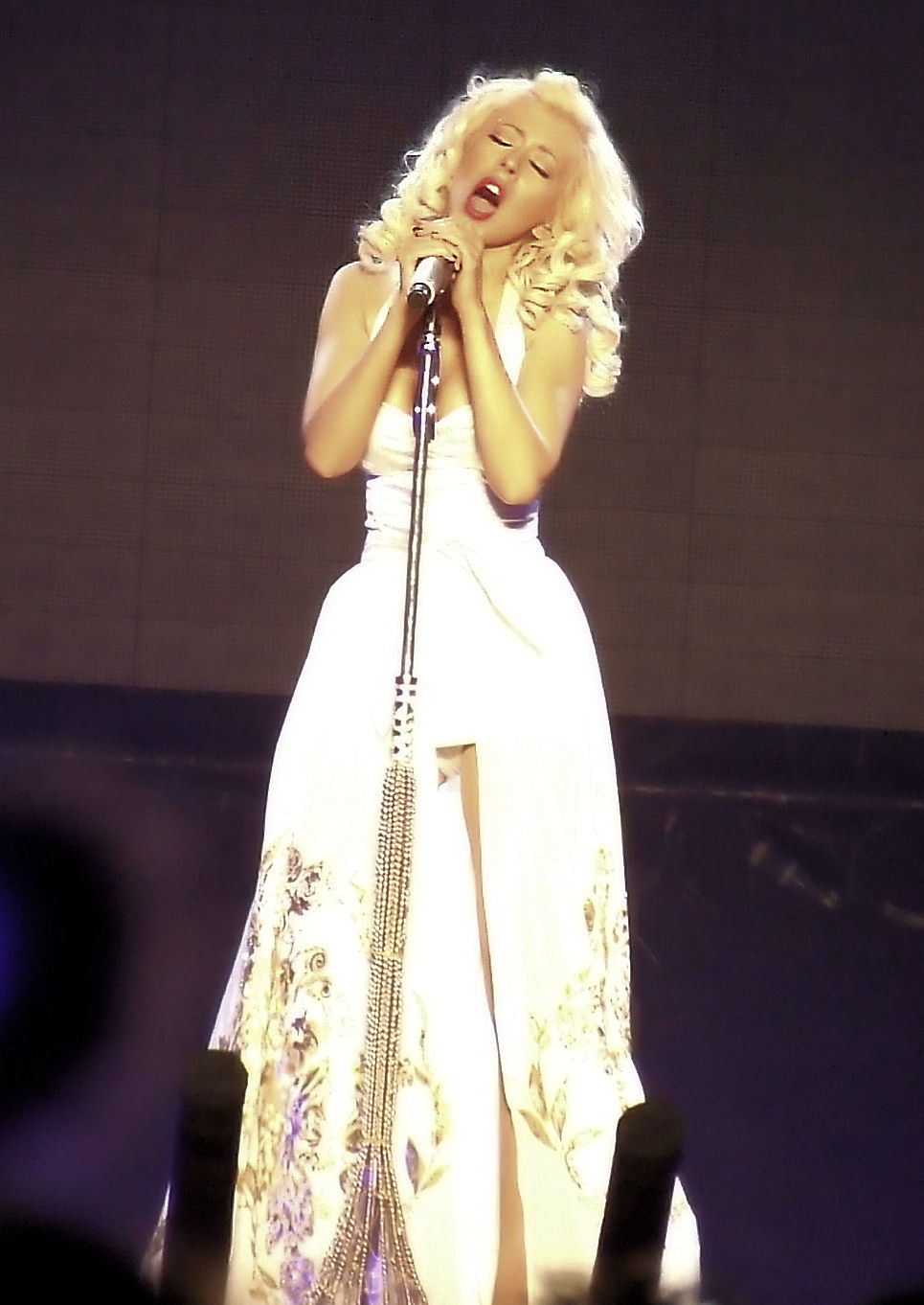 Christina Aguilera sings "Understand" at The Point Theatre, Dublin, 21 November 2006